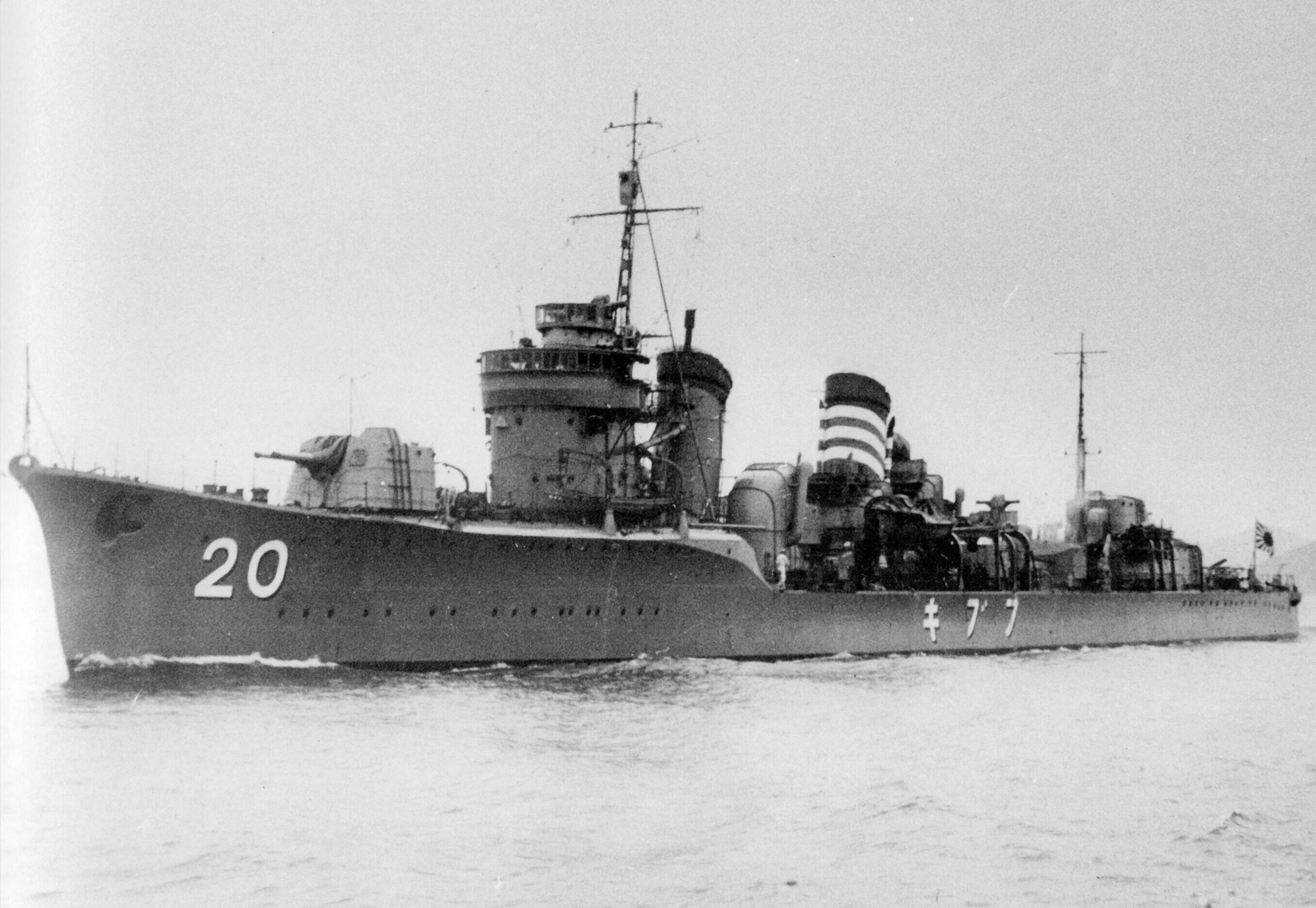 Imperial Japanese Navy destroyer Fubuki. This pre-1945 image is believed to be copyright-free, as it is a Japanese photograph older than 50 years. If copyright exists in this image, use here is asserted to be fair use.